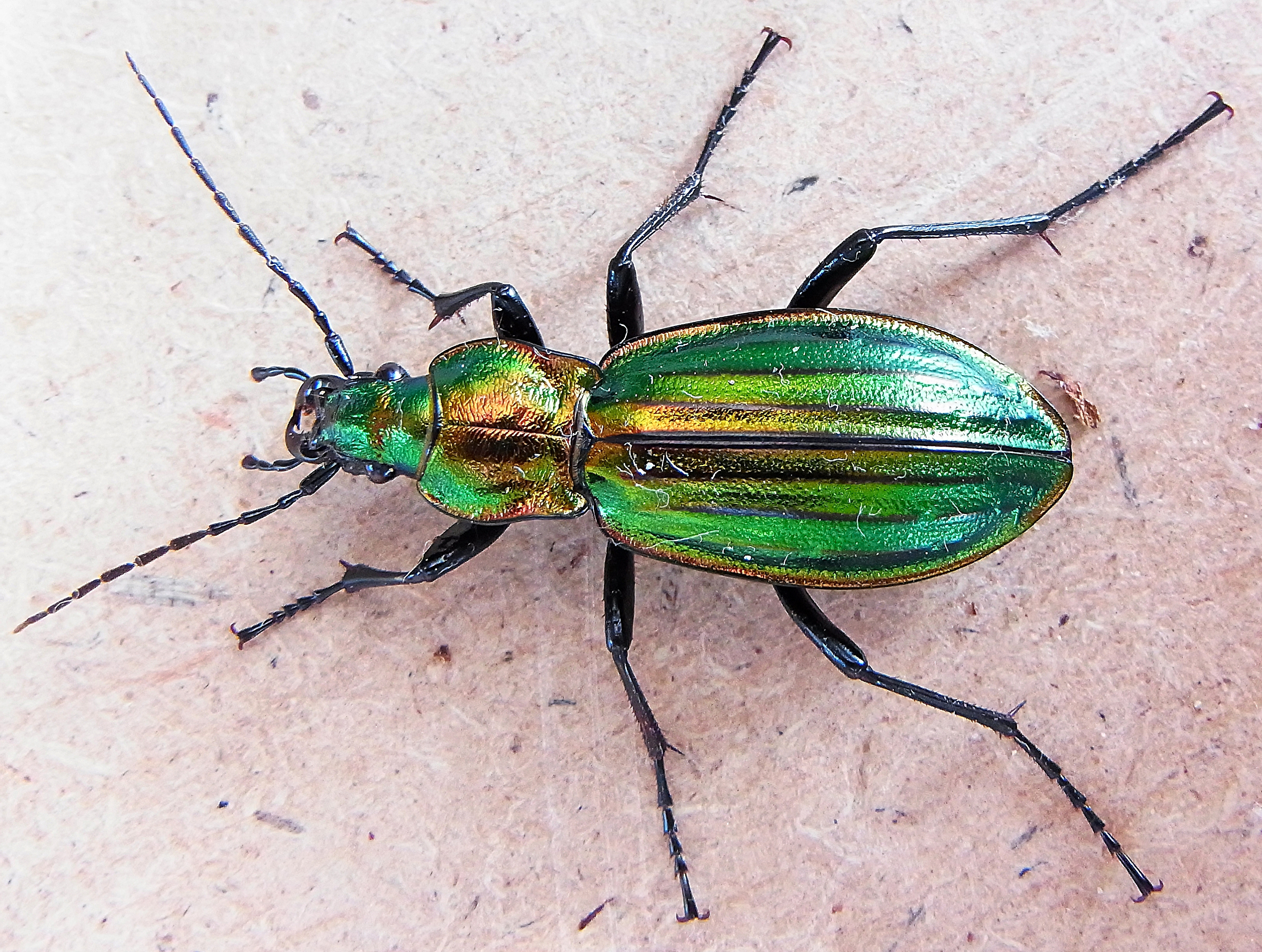 Carabus lineatus from Northern Spain, near 34849 Piedraslenguas, Palencia